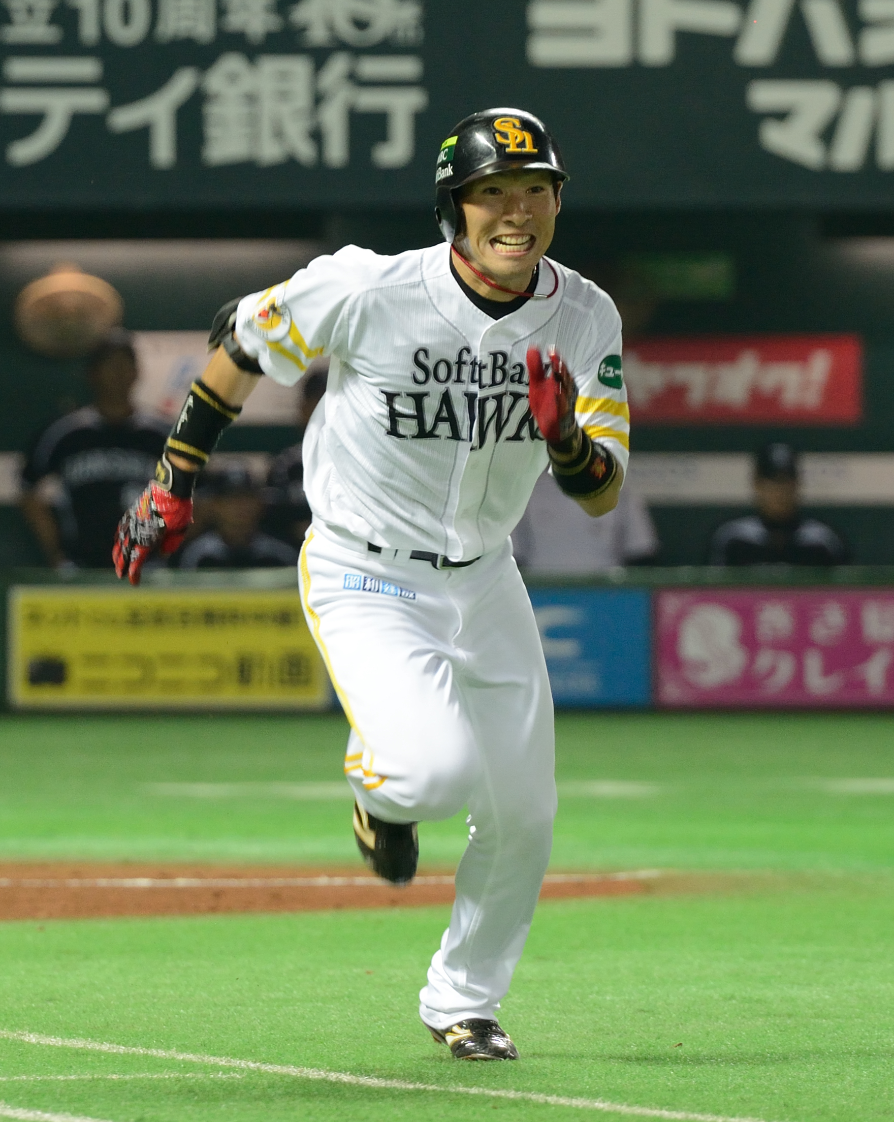 Yuichi Honda, infielder of the Fukuoka SoftBank Hawks, during Game 4 of the 2014 Japan Series at Fukuoka Dome.